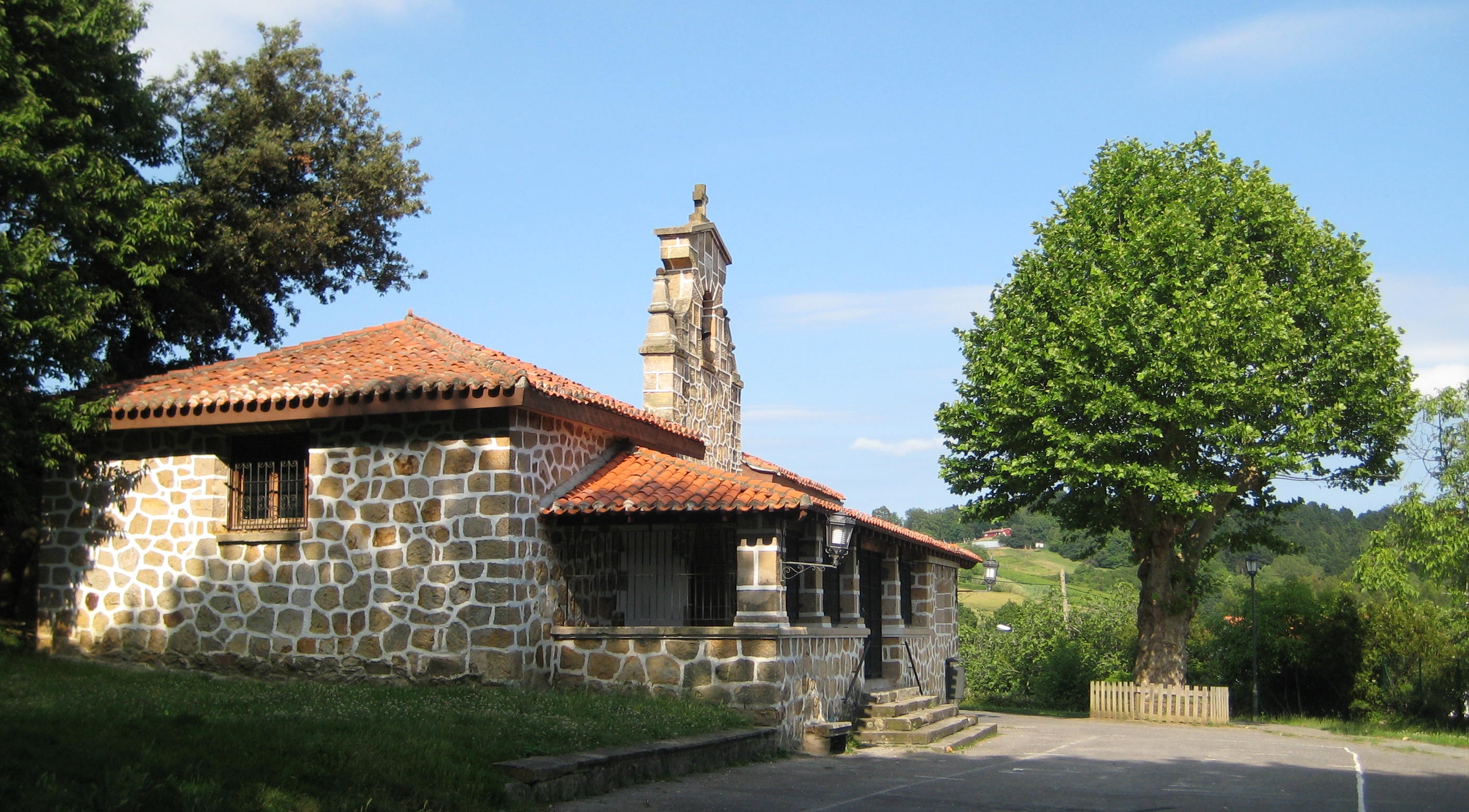 (Photograph taken 2011-06-14). Saint Christopher's Hermitage in Erandio, Biscay, Basque Country, Spain.